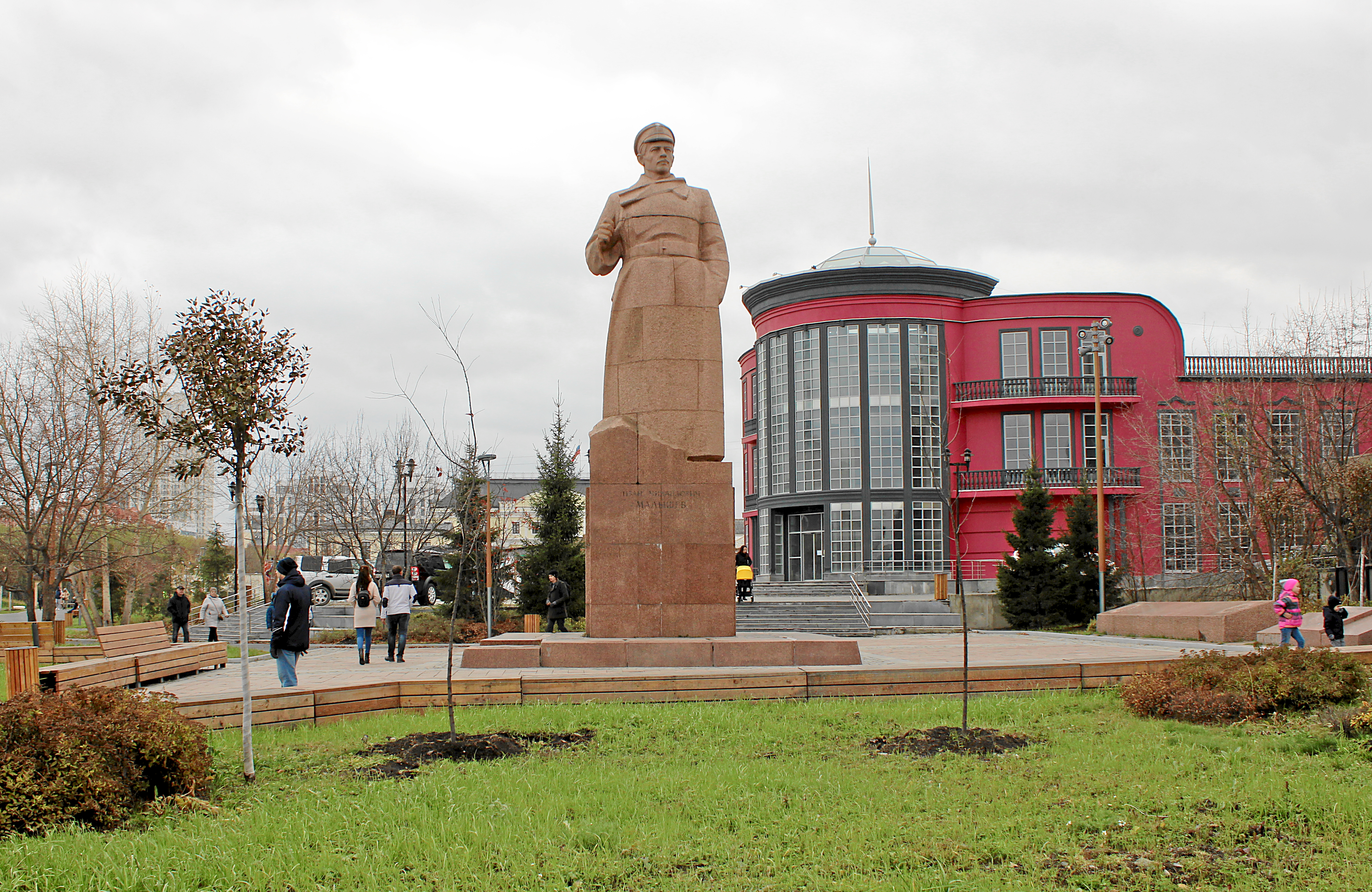 The monument to Ivan Malyshev in Yekaterinburg